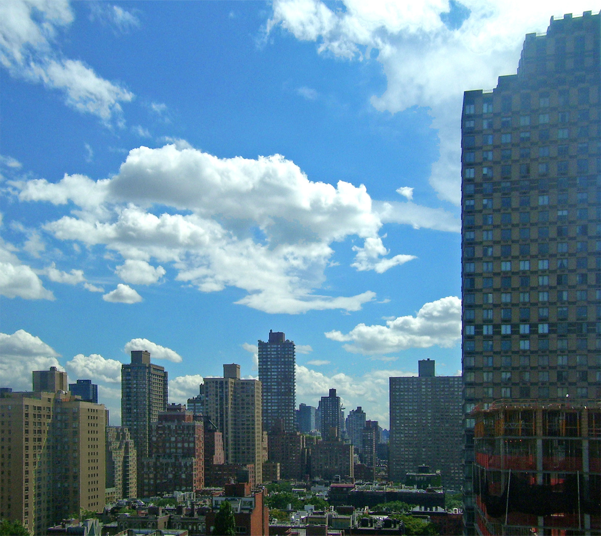 View south over Yorkville section of Manhattan from apartment on East 86th Street